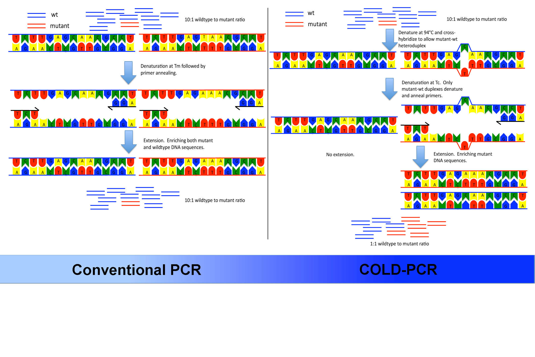 Schematic representation of COLD-PCR